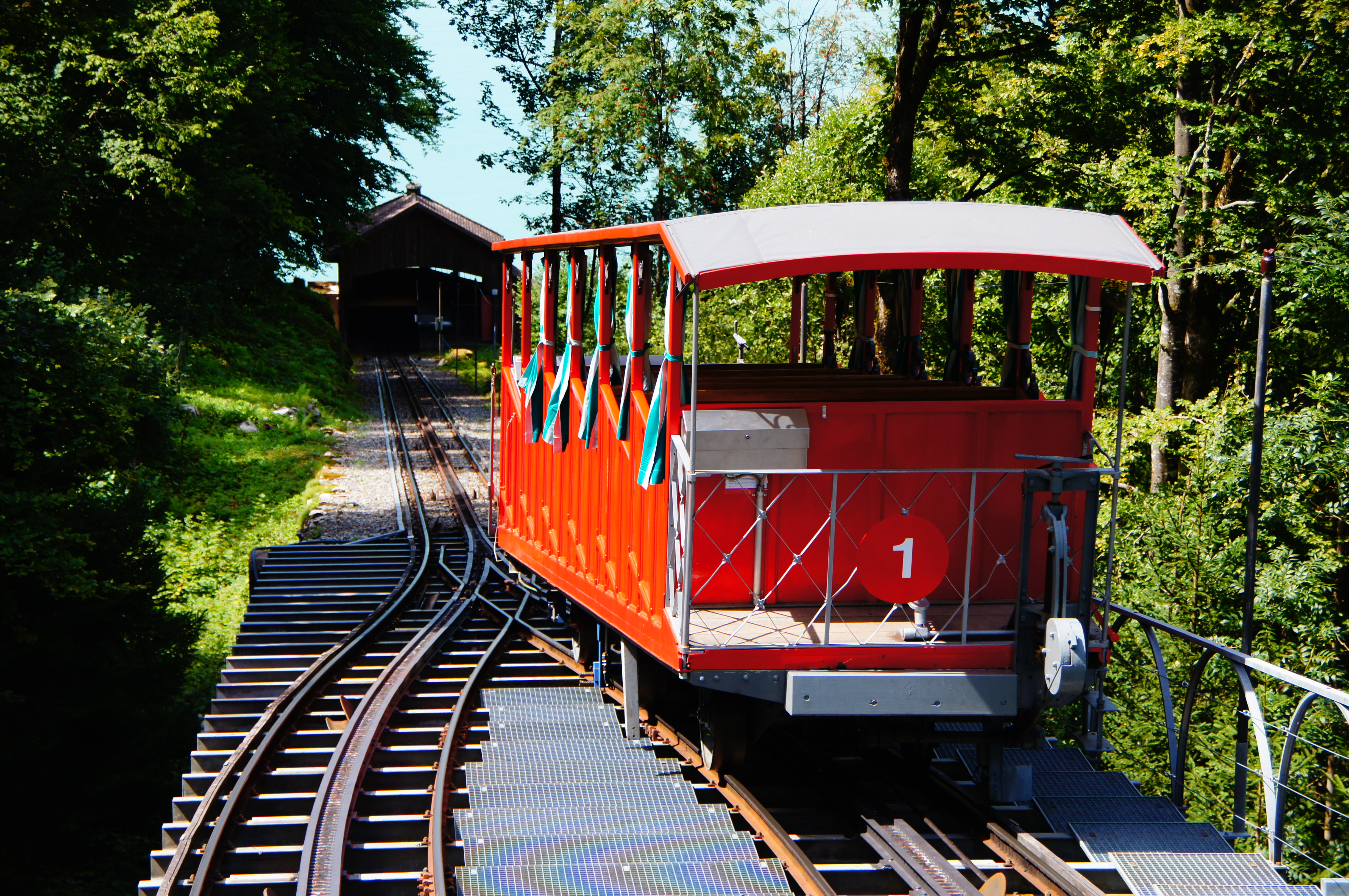 Car of the Giessbachbahn at the passing loop. For more information, see the wikipedia article Giessbachbahn.